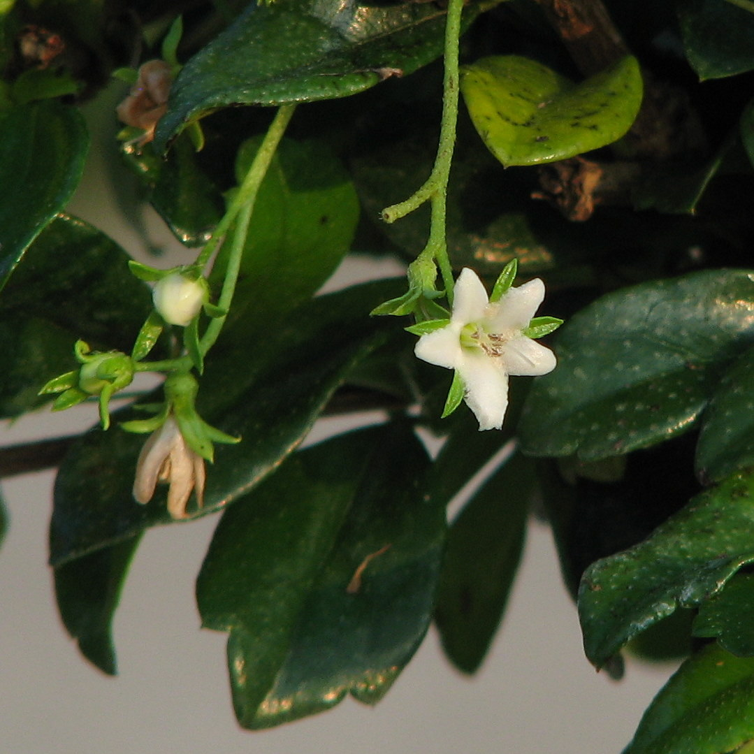 Flowers and foliage of a Fukien Tea Tree (Carmona) bonsai